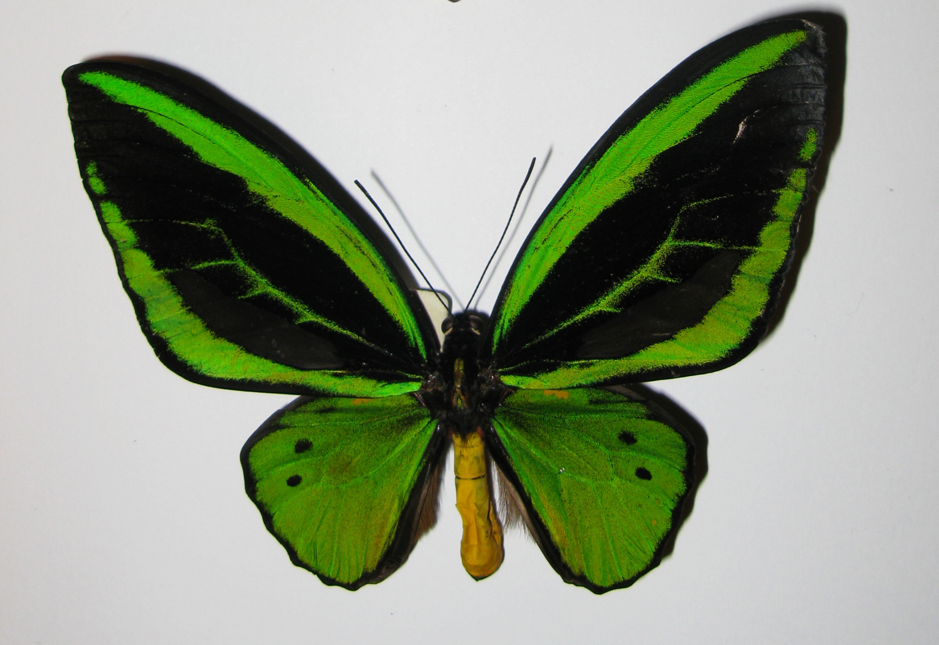 Ornithoptera_priamus_poseidon_male